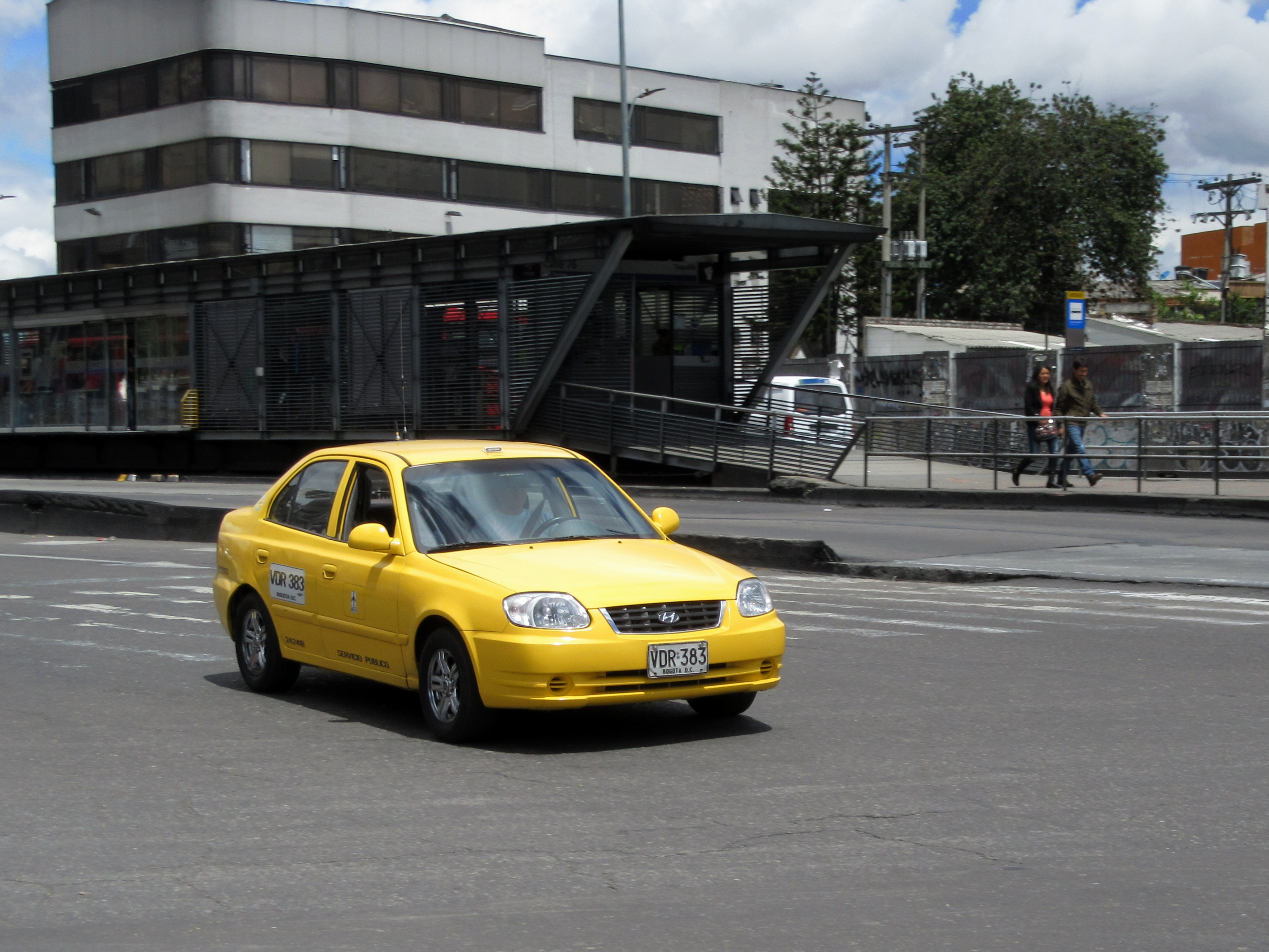 Bogotá